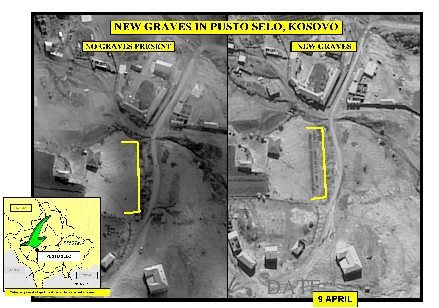 New graves in Pusto Selo, Kosovo, 1999.